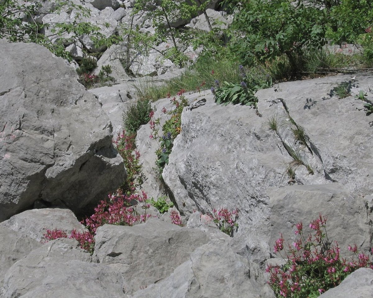 Korenikasta krvomočnica na južnem pobočju Gore nad Ajdovščino.